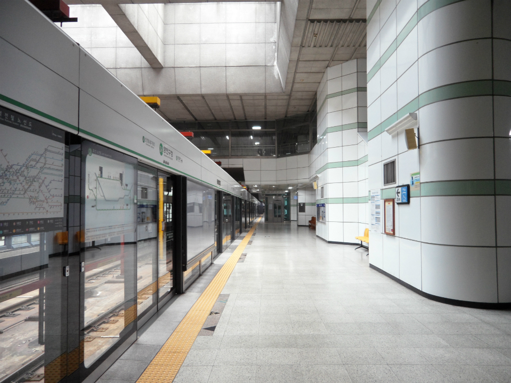 Platform of Yangcheon-gu Office Station